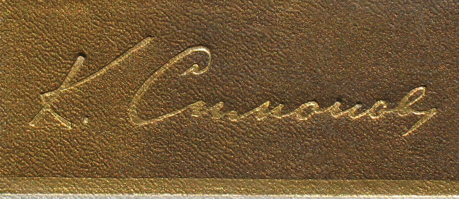 Konstantin Simonov signature on his book.